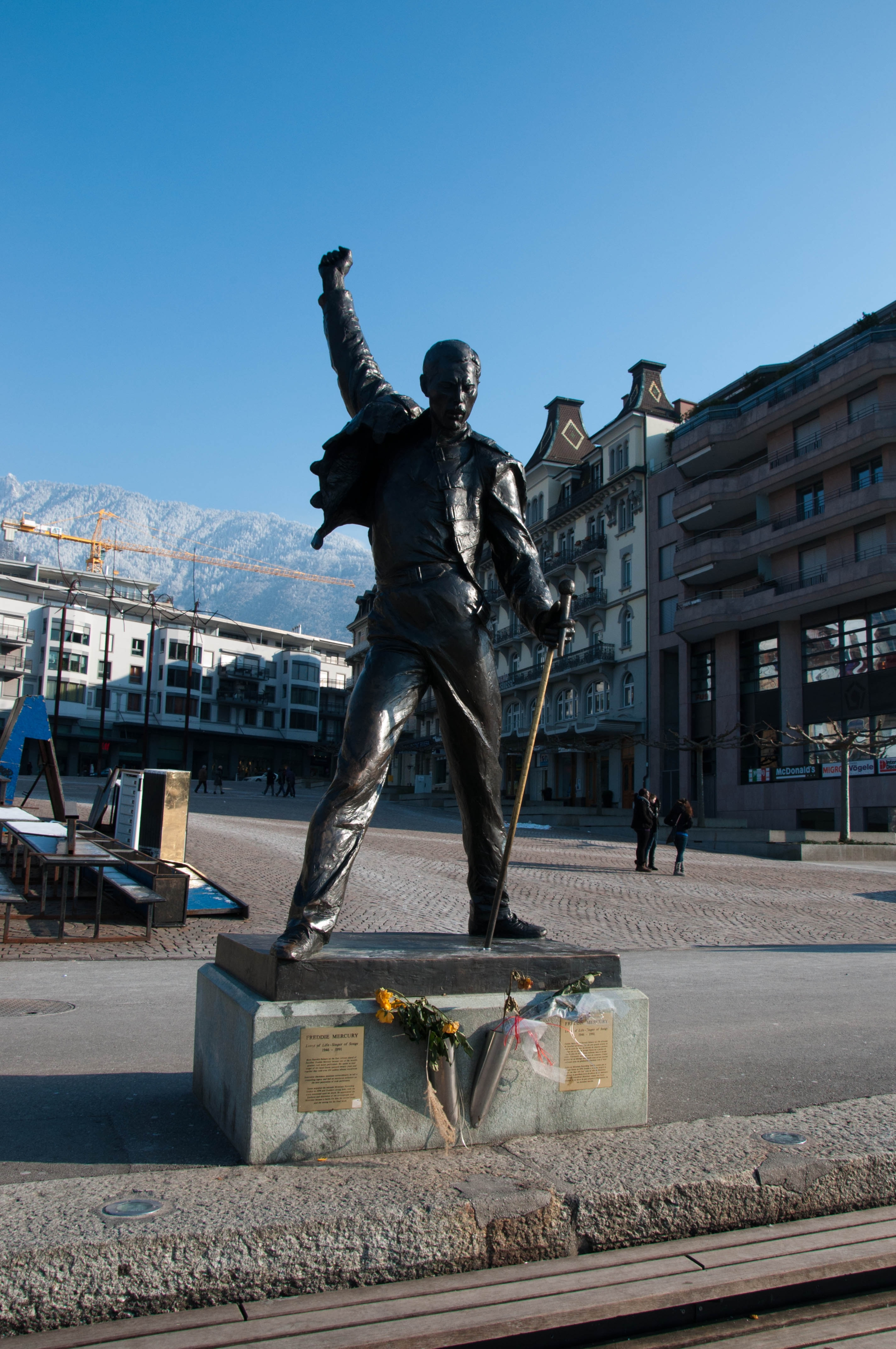 Freddy Mercury Statue (Montreux - Lac Léman)